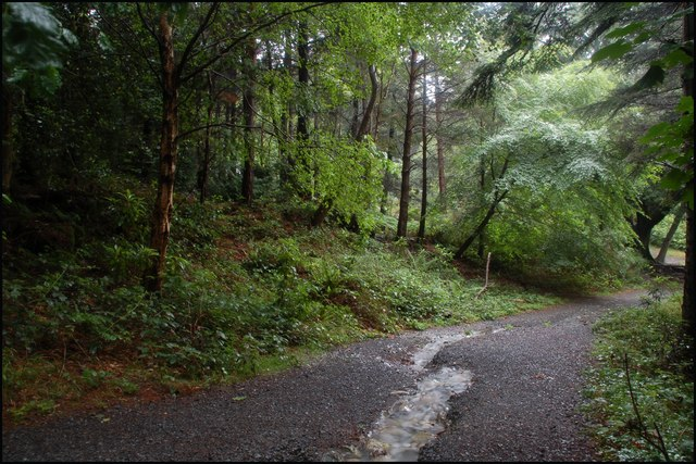 A path in Donard Forest, Newcastle (2). See 467036. This is one of the paths in the forest. It has its own stream during periods of heavy rain.